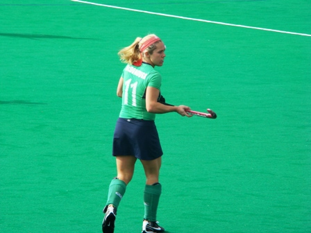 Jenny McDonough playing for Ireland against Korea in the 2008 Olympic Qualifiers in Canada